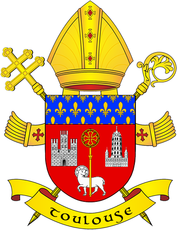 Coat of Arms of archdiocese of Toulouse in France.